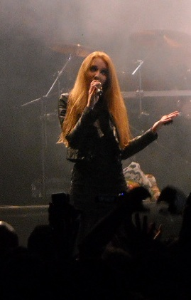 Simone Simons during a concert at Fundição Progresso, Lapa, Rio de Janeiro, Brazil.